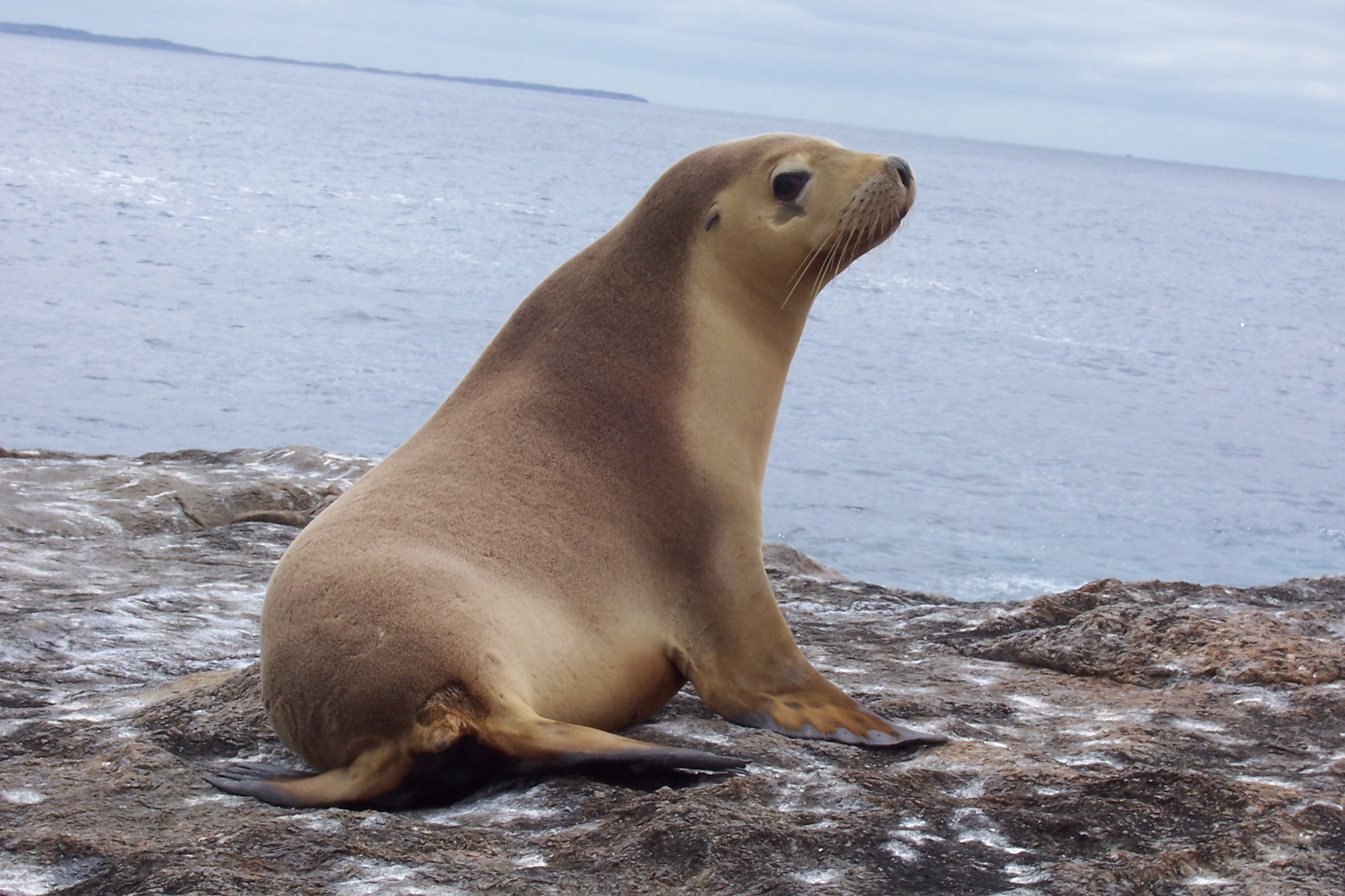 Australian Sea Lion on North Neptune Island preserve southwest of Adelaide.